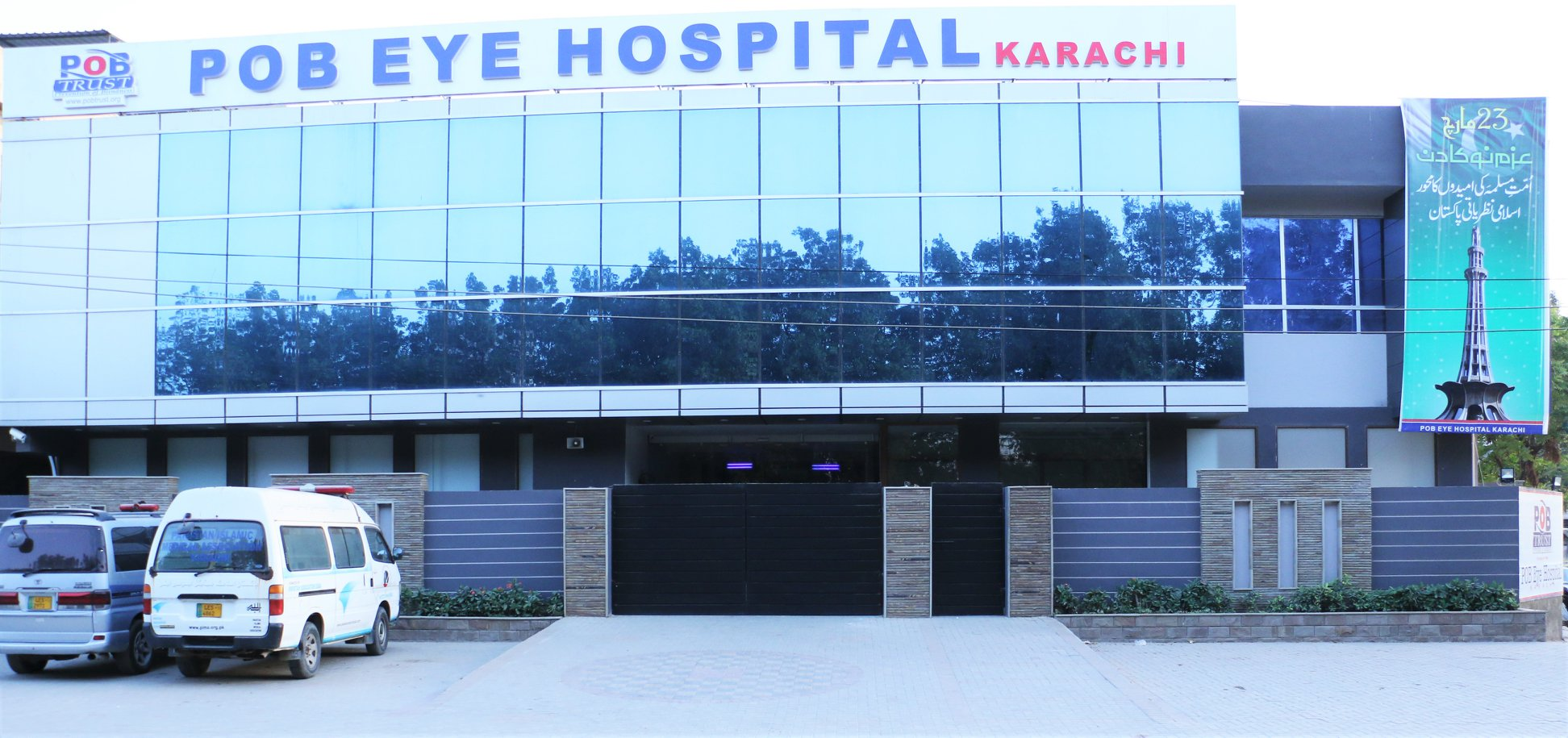 POB Eye Hospital, C -15 Block 12, Gulistan e Johar Near Munawar Chowrangi, Karachi